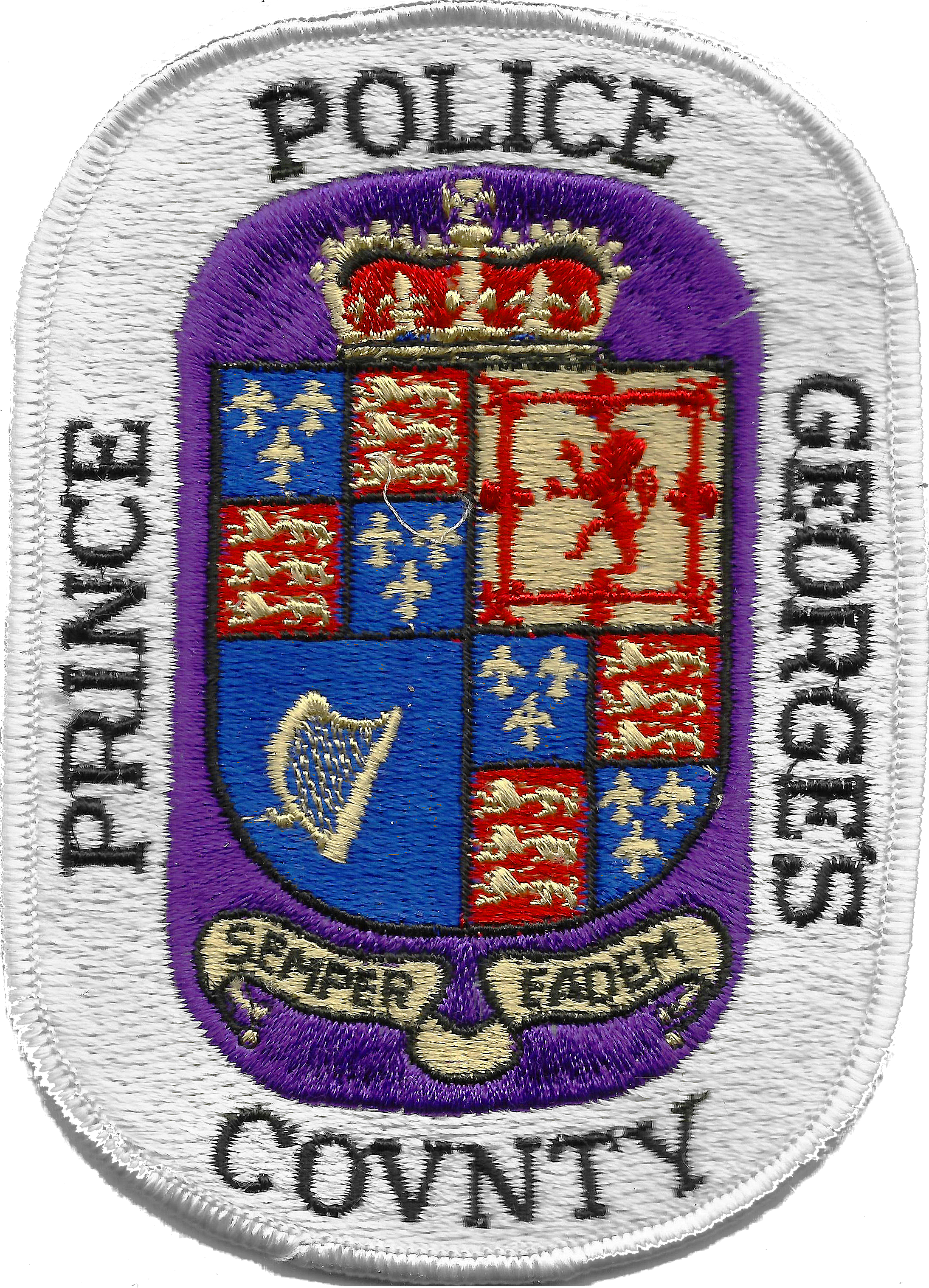 The patch of the Prince George's County, Maryland Police Department (PGPD). Patch is 5 inches tall and 4 inches wide.